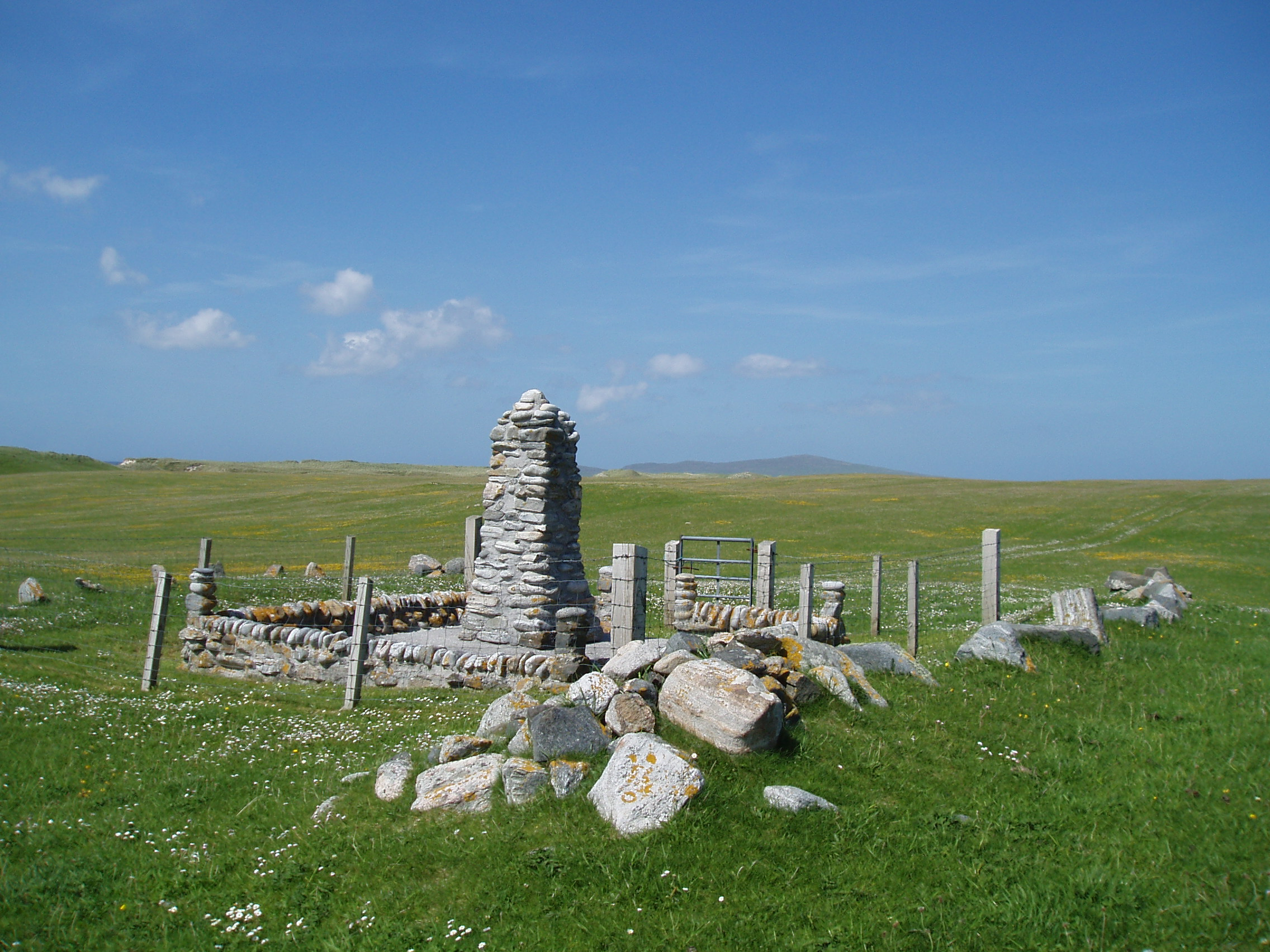 The Giant MacAskill Cairn was erected in 1991 on the Isle of Berneray, Outer Hebrides, to commemorate his birthplace.